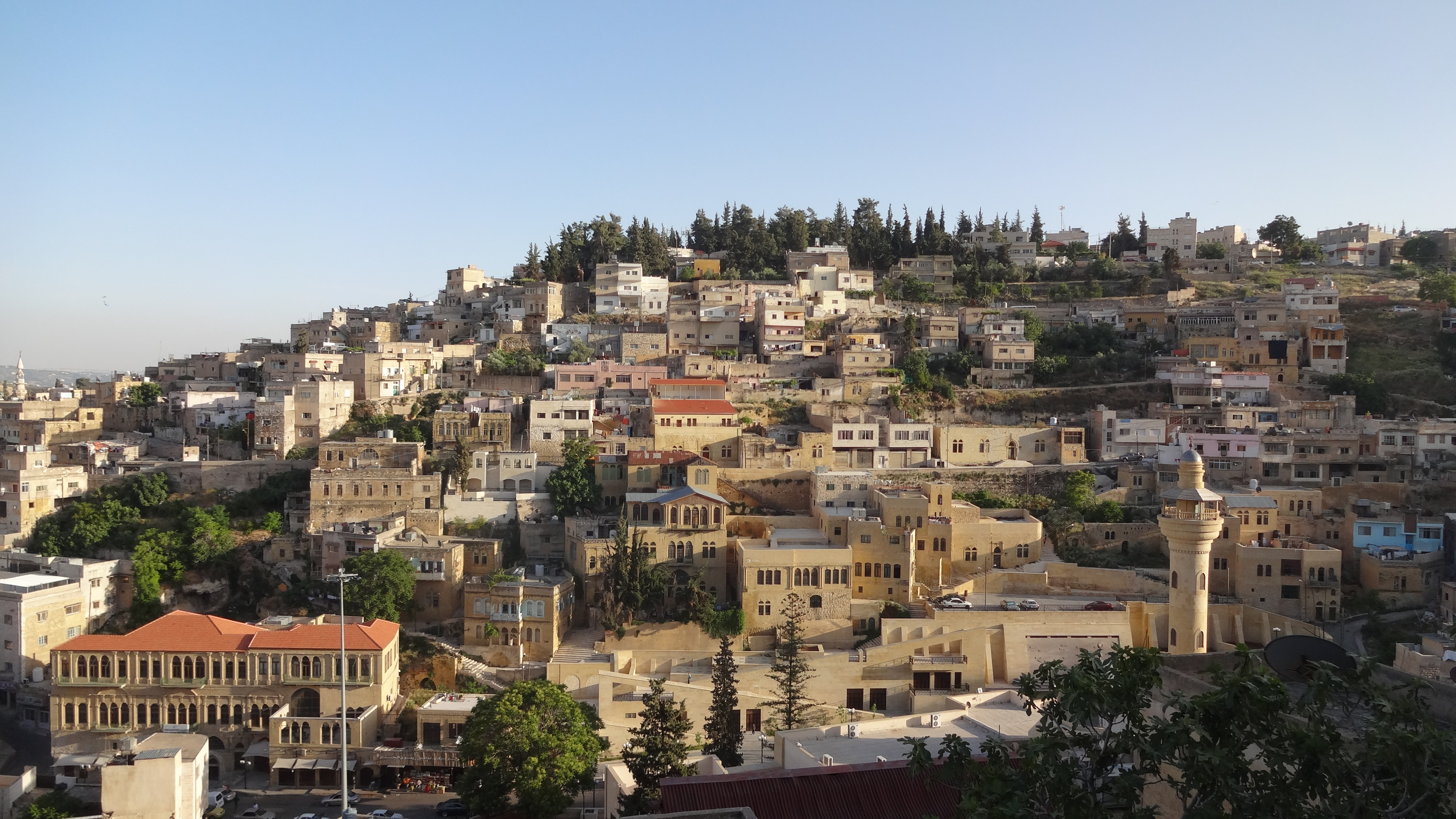 Central Area of Salt city. The Area called Al-Saha. Historical Salt Churches are Balqa Tourism Directorate, Abu Jaber Museum are all within the premises of Al-Saha.